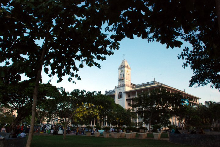 House of Wonders in Stone Town